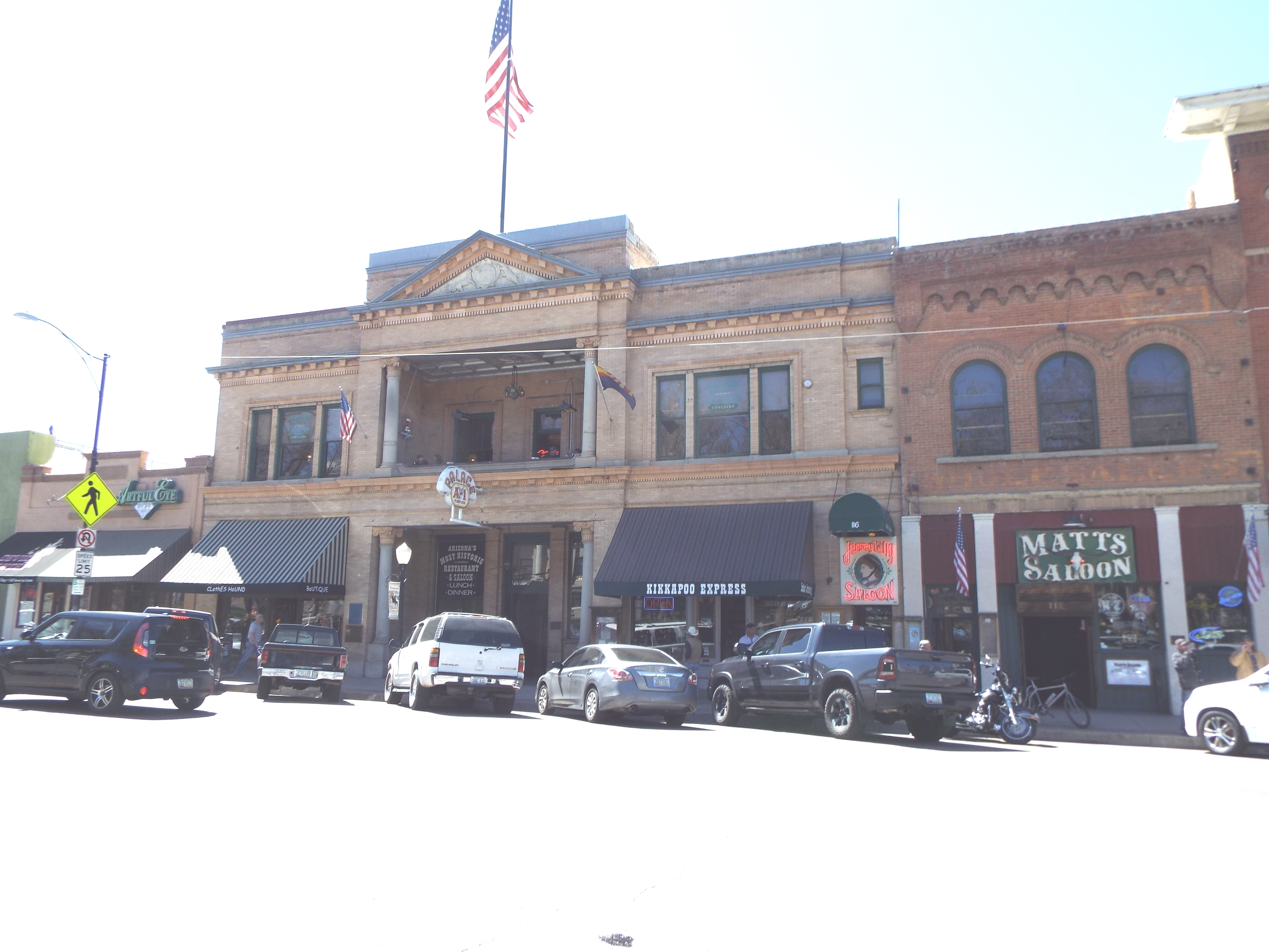 Whiskey Row rebuilt in 1901 in Prescott, Az.